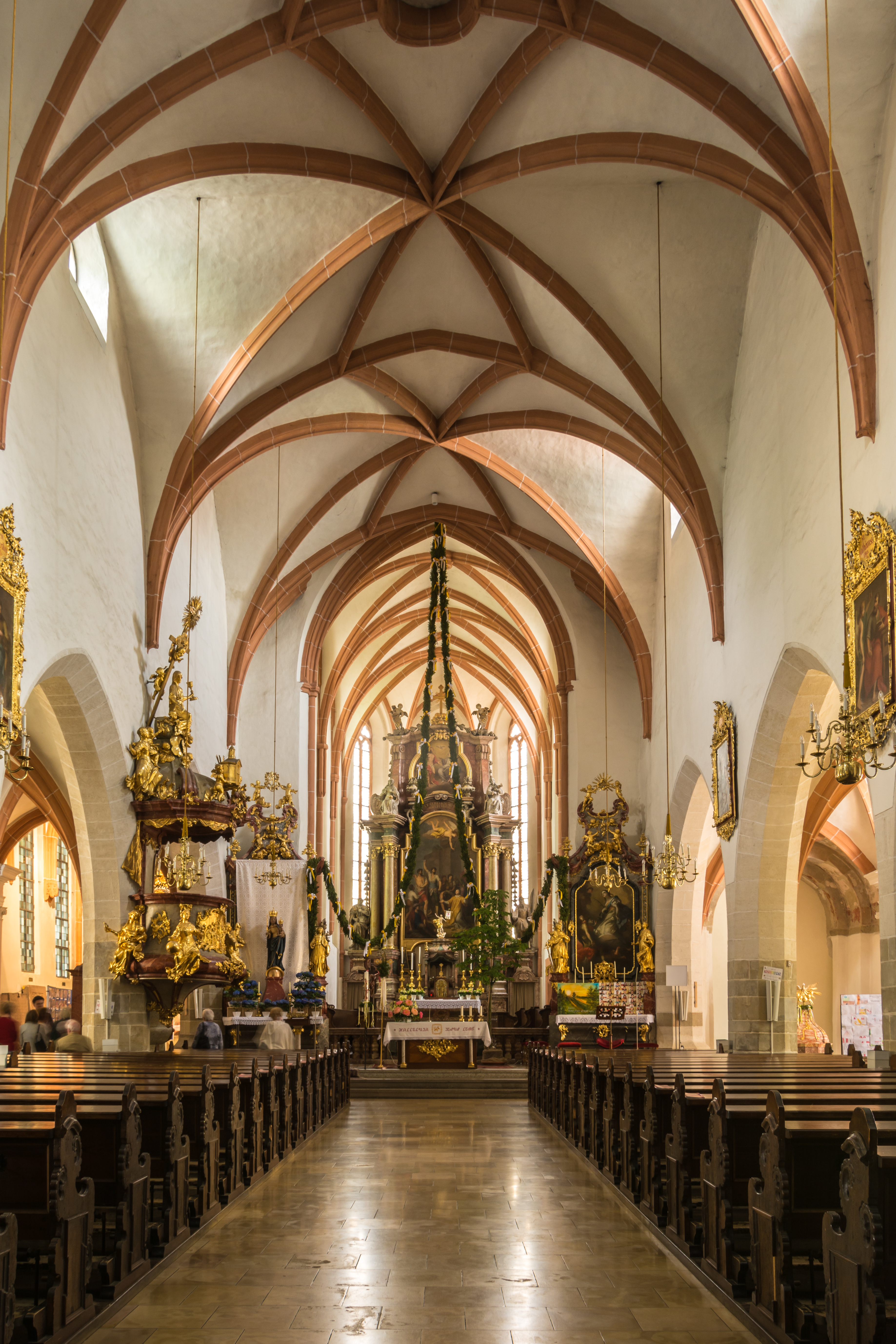 Interior of St. Stephen's parish church in Tulln an der Donau, Lower Austria